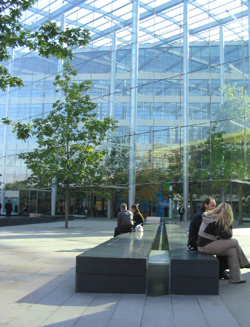 Tower Place, City of London. Office workers enjoying the October sunshine outside this futuristic office building just west of the Tower of London. Although this looks like an interior shot it is in fact outside.